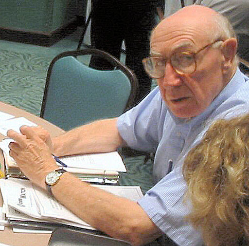 Author: Angelo Falcón